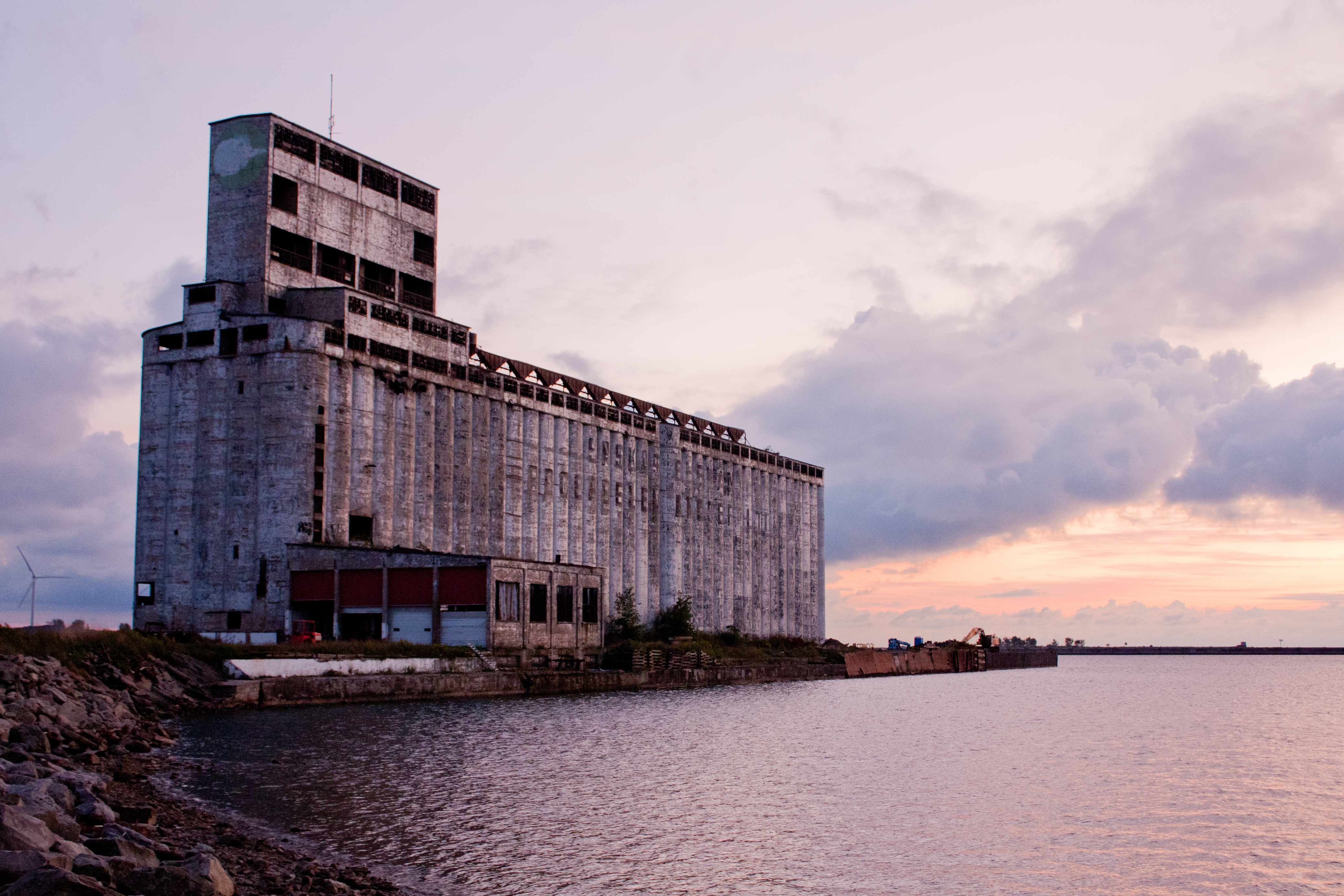 The Cargill Pool grain elevator in Buffalo, NY, as seen at sunset.